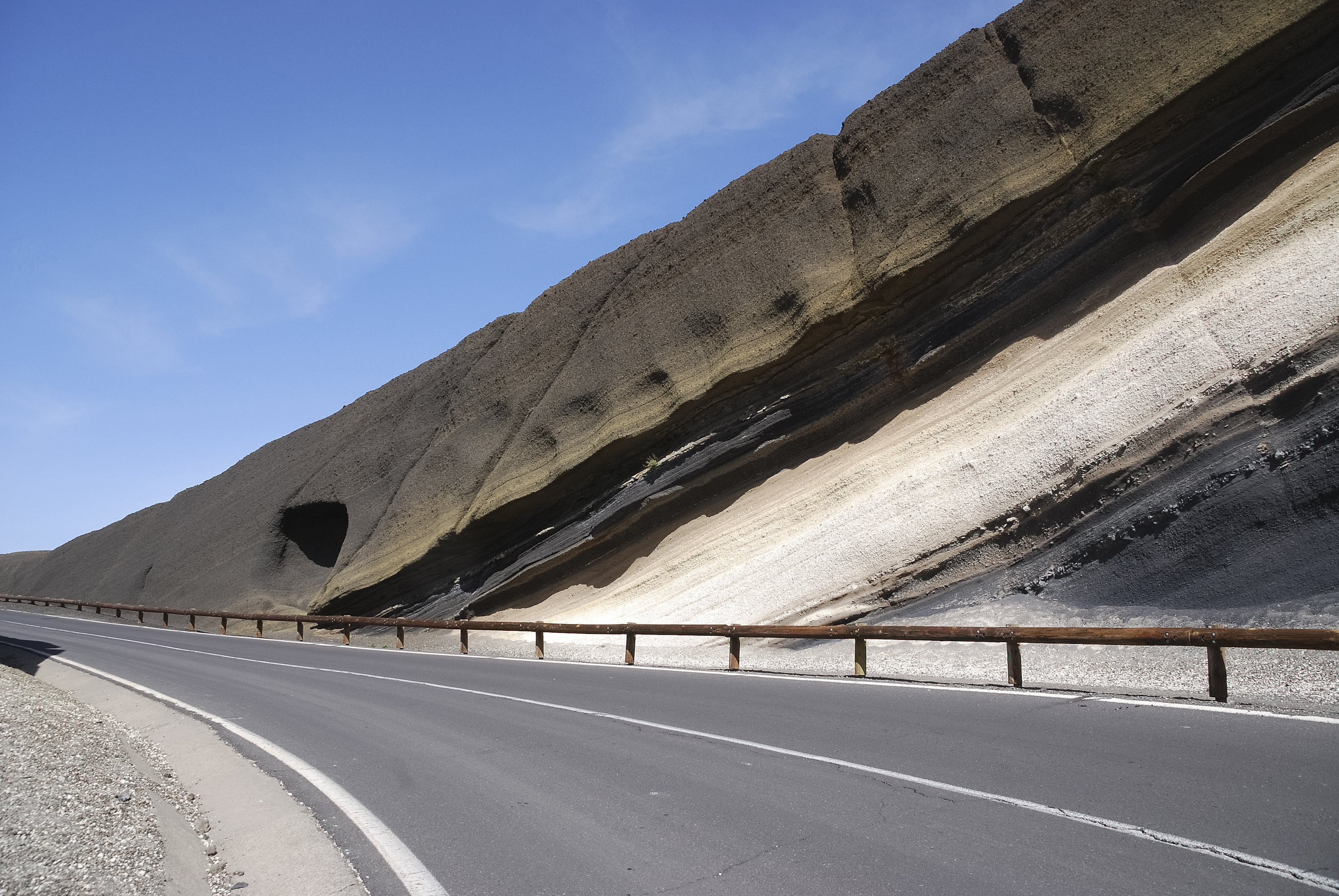 Volcanic rock strata on Tenerife